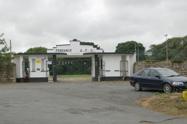 The entrance to Penzance AFC's football ground on Alexandra Place, Penzance, Cornwall. Penzance AFC are known as "The Magpies"